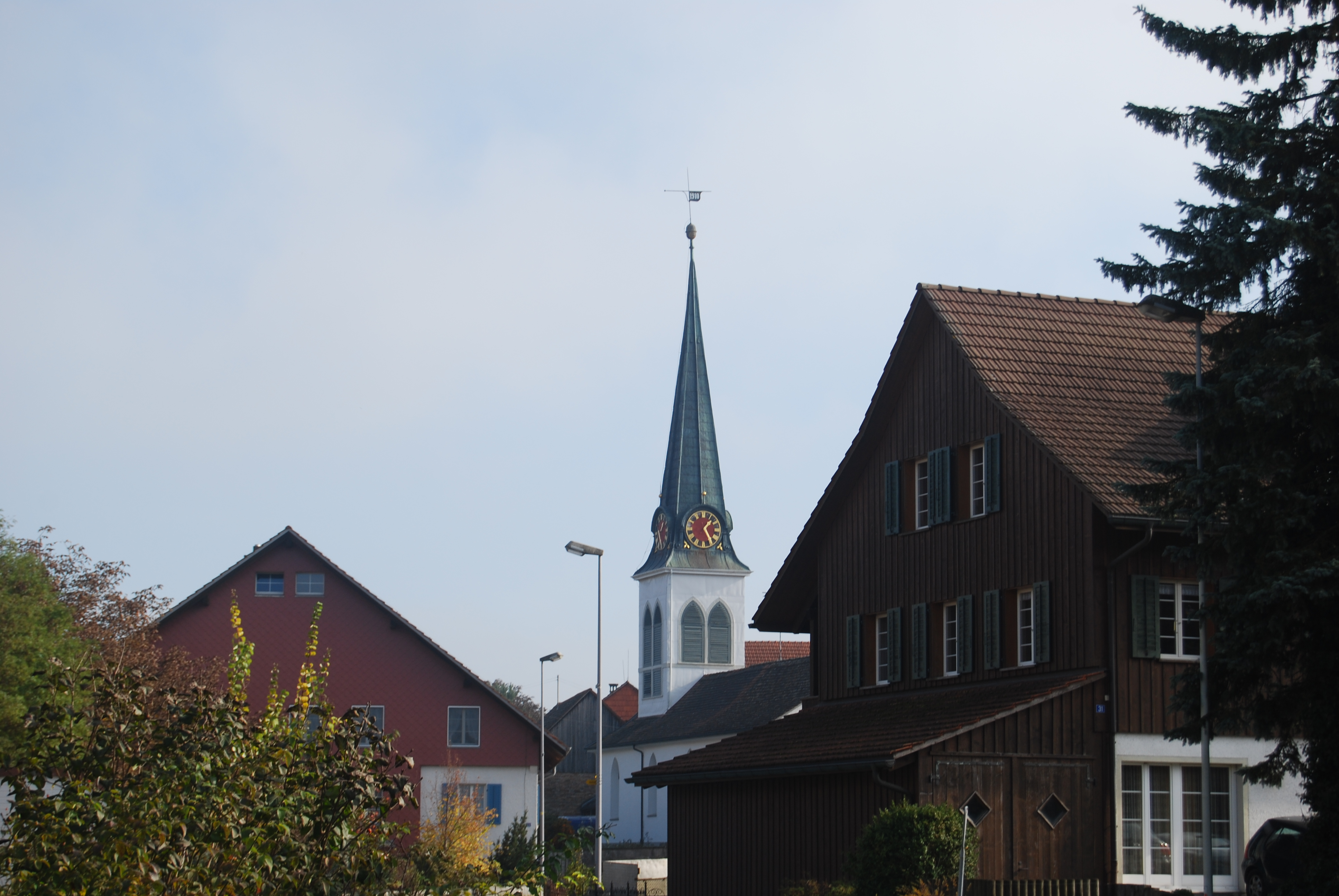 Church of Thalheim an der Thur, canton of Zürich, SwitzerlandEsperanto: Preĝejo de Thalheim ĉe Turo, Kantono Zuriko, Svislando